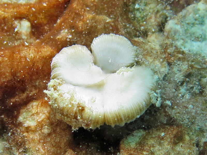 Underside of Cycloseris distorta at Lizard Island. The fan-shaped segments can break off and form a new polyp, a form of asexual reproduction.